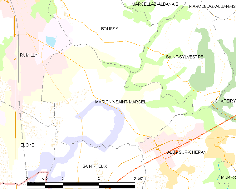 Map of French municipality Marigny-Saint-Marcel